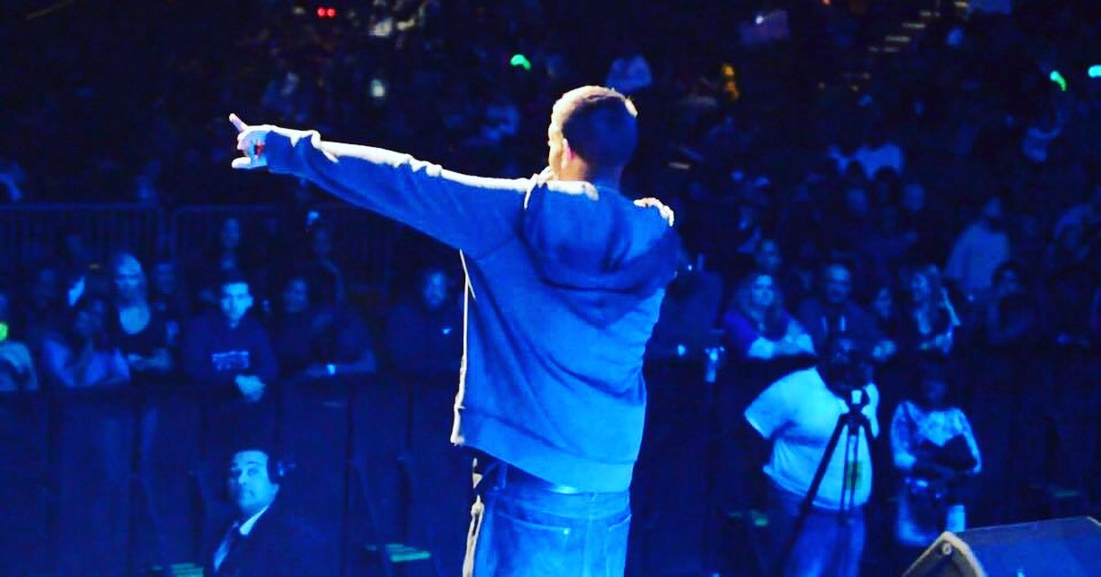 Lazarus opening up for Ludacris at the Dr. Pepper Arena in Dallas.